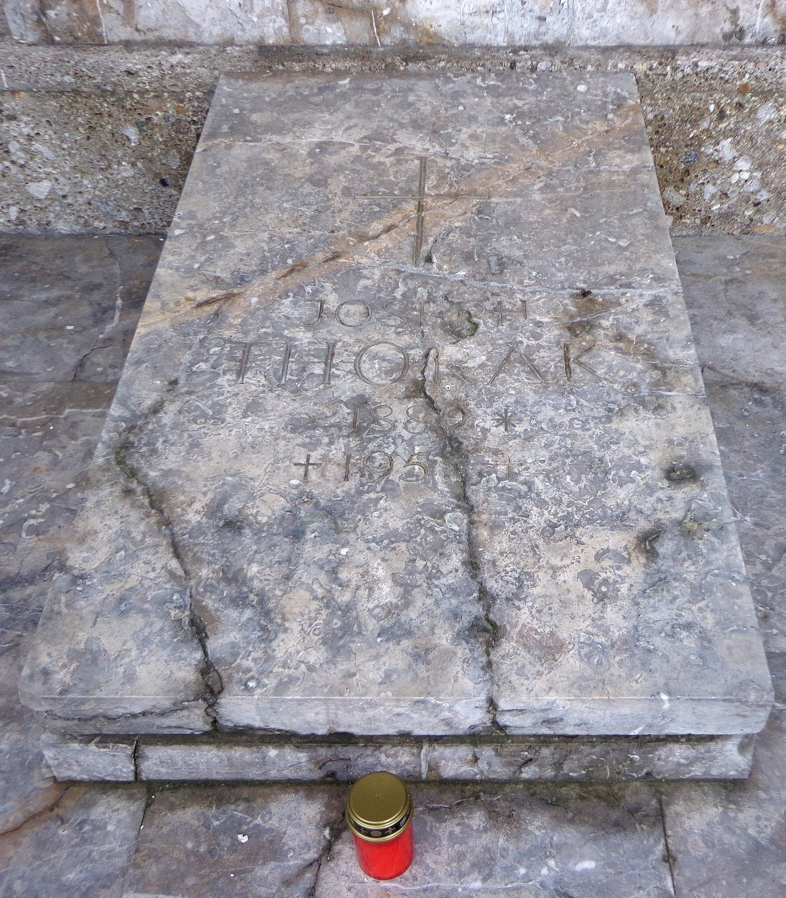 Crypt 25 (Petersfriedhof Salzburg) Thorak